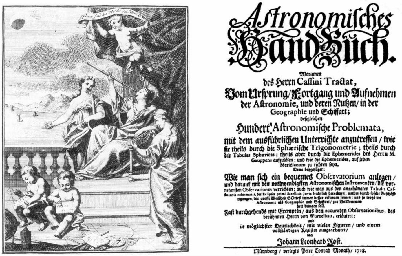 "Astronomische Handbuch" (Astronomy Handbook Frontpage) (Johann Leonhard Rost; Nuremberg 1718)